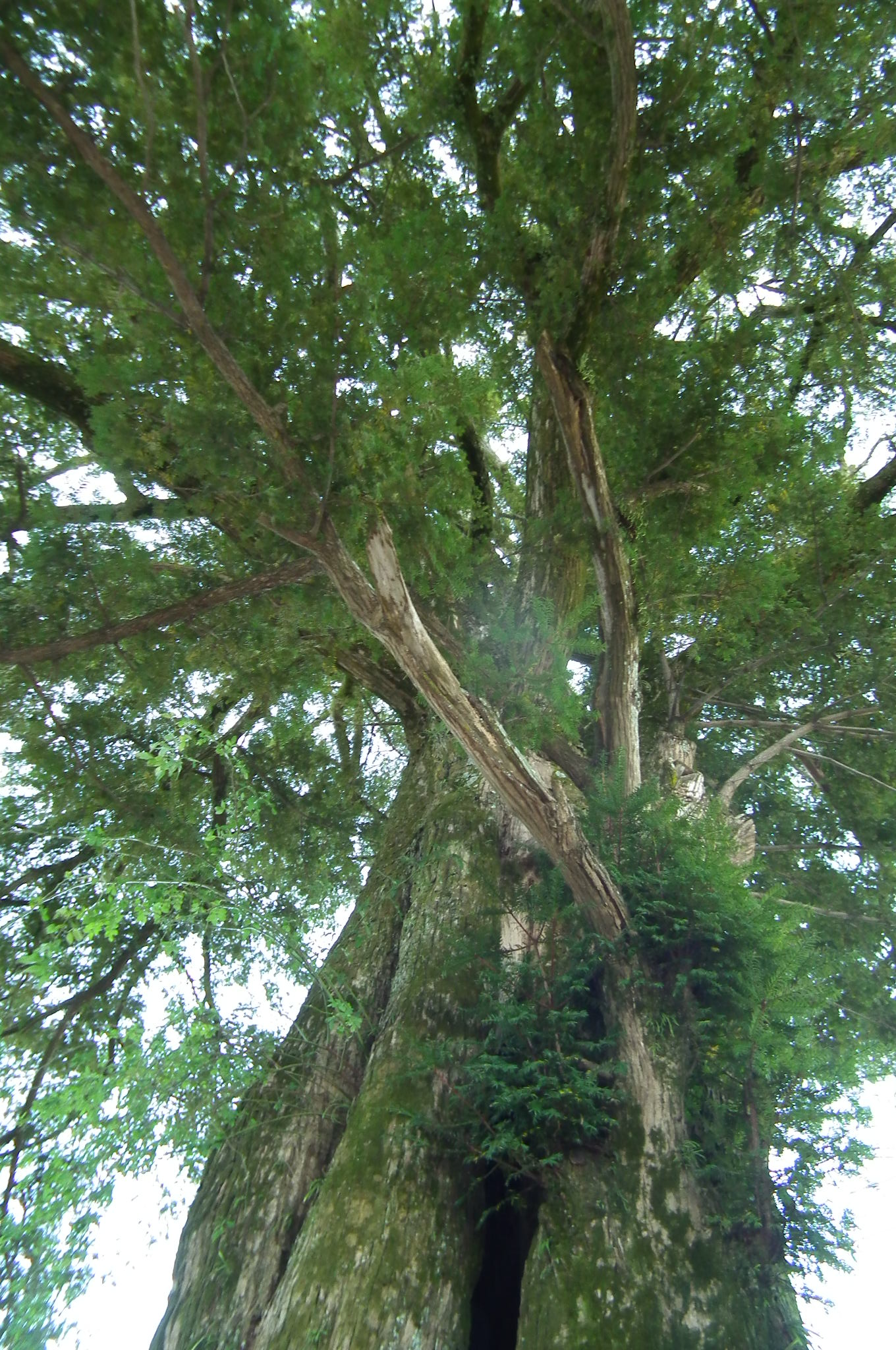 兵庫県篠山市今田町今田新田82 西方寺サザンカ